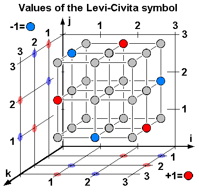 Values of the Levi-Civita symbol in a right-handed coordinate system